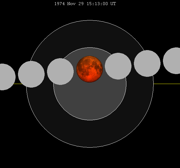 November 1974 lunar eclipse chart of moon's path through the earth's shadow. thumb